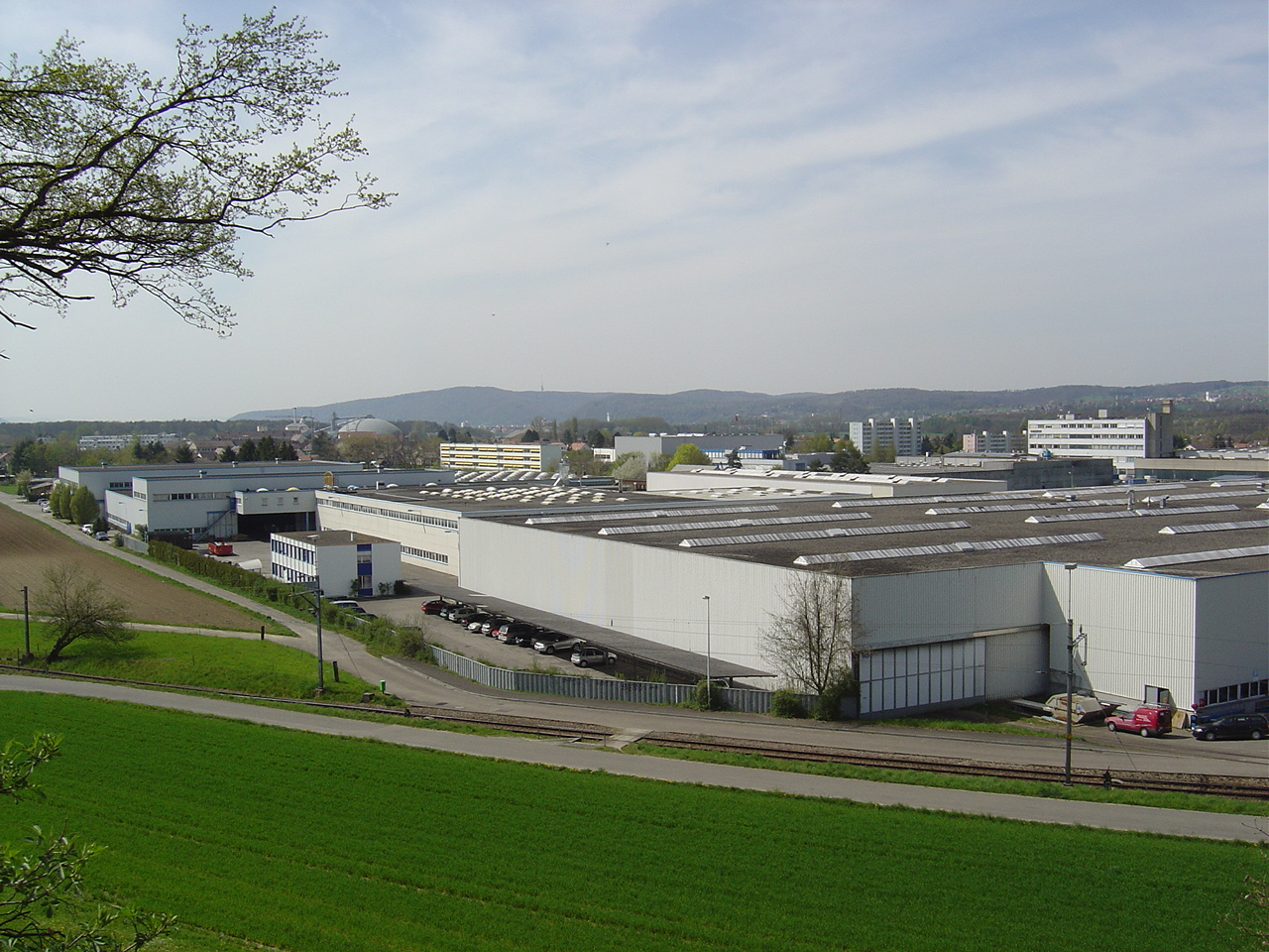 industry area of Möhlin